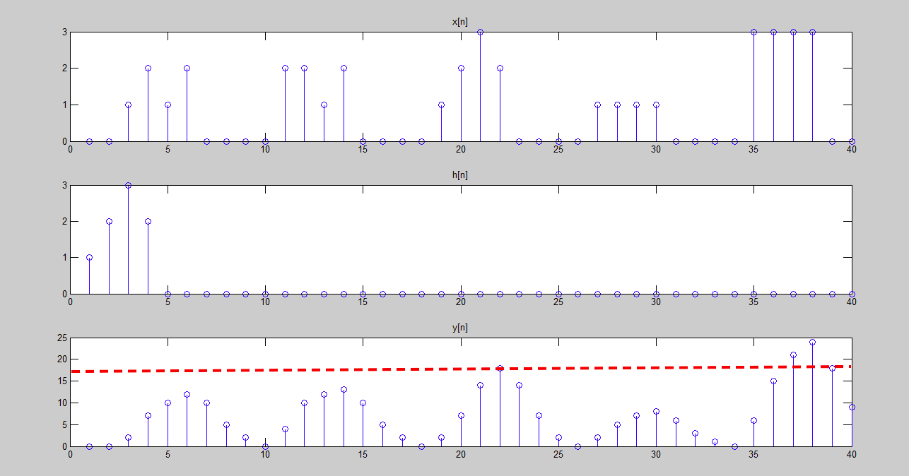 match filter